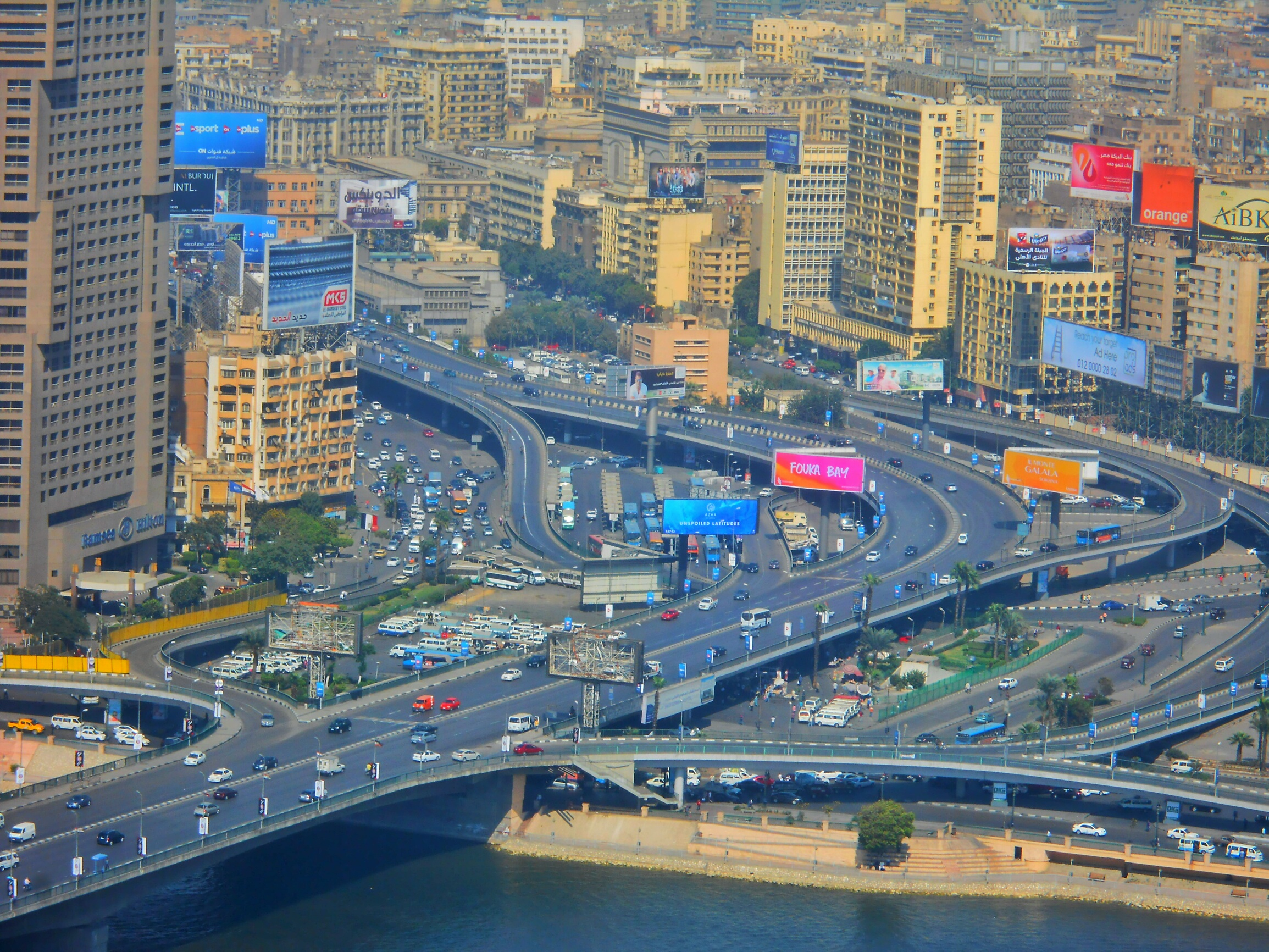 Daily life and traffic to Cairo from the top of its towers This is an image from Egypt